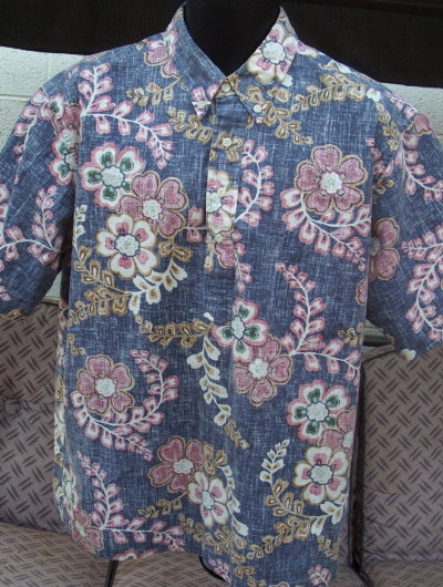 Hawaiian shirt menswear clothing aloha shirt reverse print Hawaii Reyn Spooner